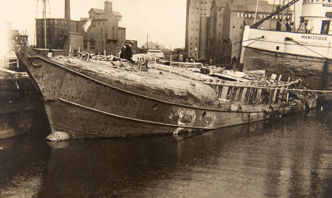 Image of the lightship LV-82 Buffalo after it was raised in 1915. The ship was sunk with all hands during the Great Lakes Storm of 1913. It was repaired and returned to service in 1917.